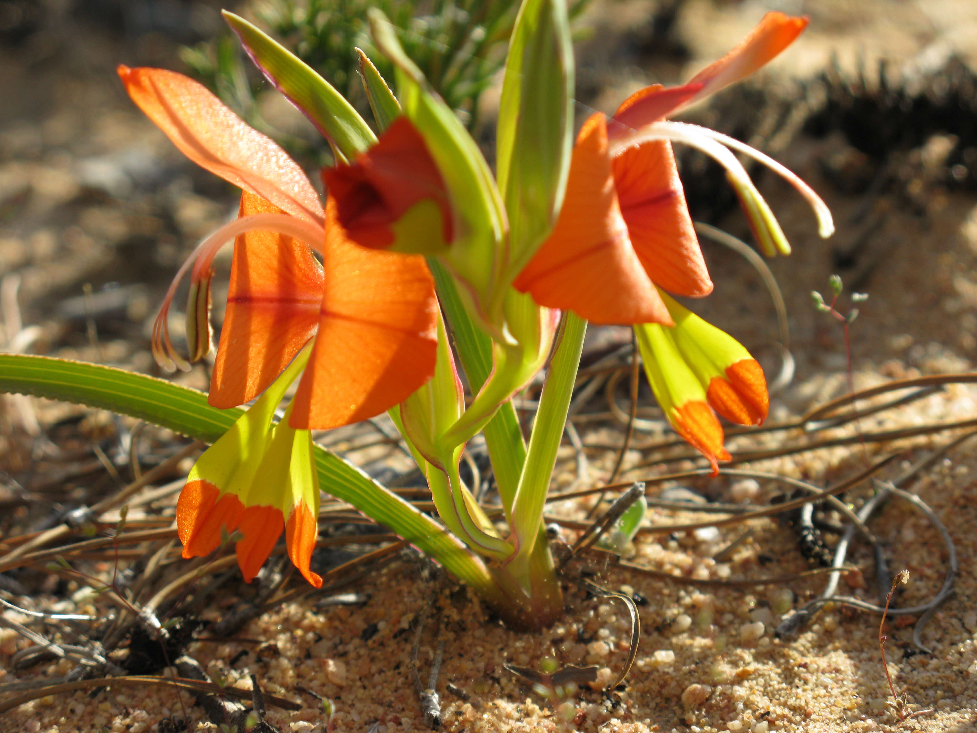 Low-growing endemic gladiolus, occurring widely in fynbos